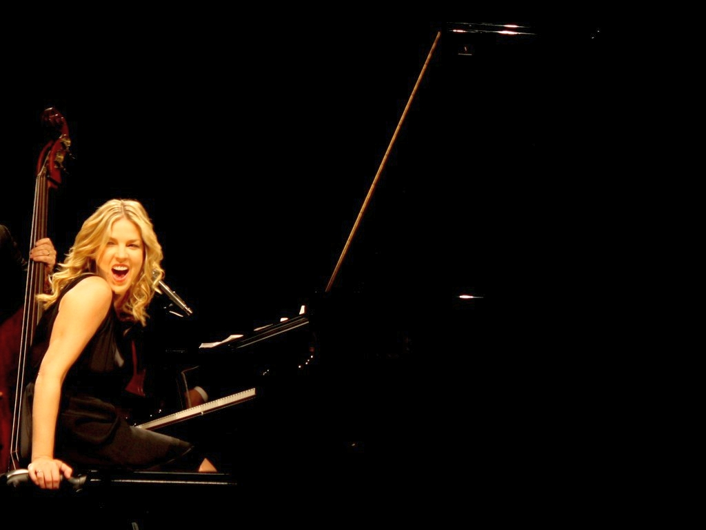 Jazz pianist Diana Krall at a concert in Cologne, Germany